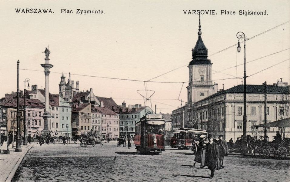 Castle Square, Warsaw